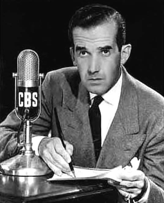 Photo of Edward R. Murrow prior to his assignment in London to cover the Royal Wedding in 1947.